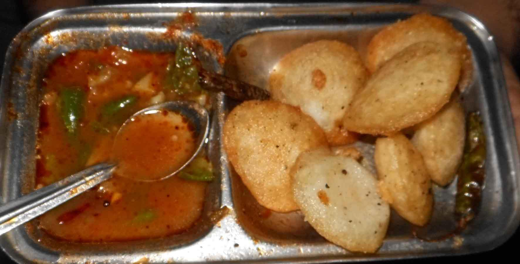 Its a traditional dish prevalent mostly around Chhota Nagpur region. Its prepared with rice flour. Served best with tomato chatni.